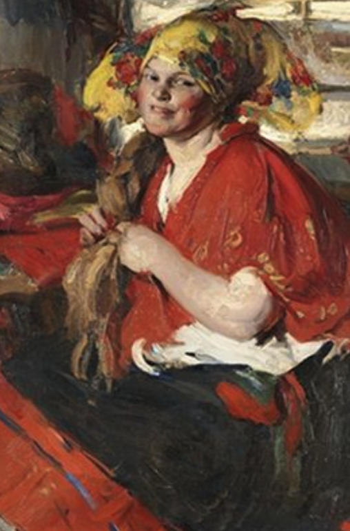 A peasant women with yellow scarf and red shawl